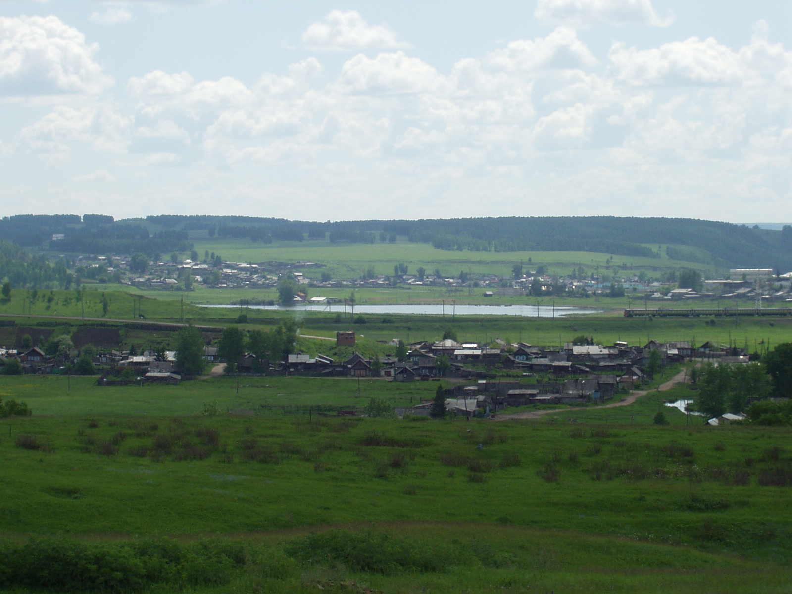 The lake near Zaozyorny the town was named after. The Trans-Siberian Railway can be seen in front of it with a suburban electrical train from Krasnoyarsk.